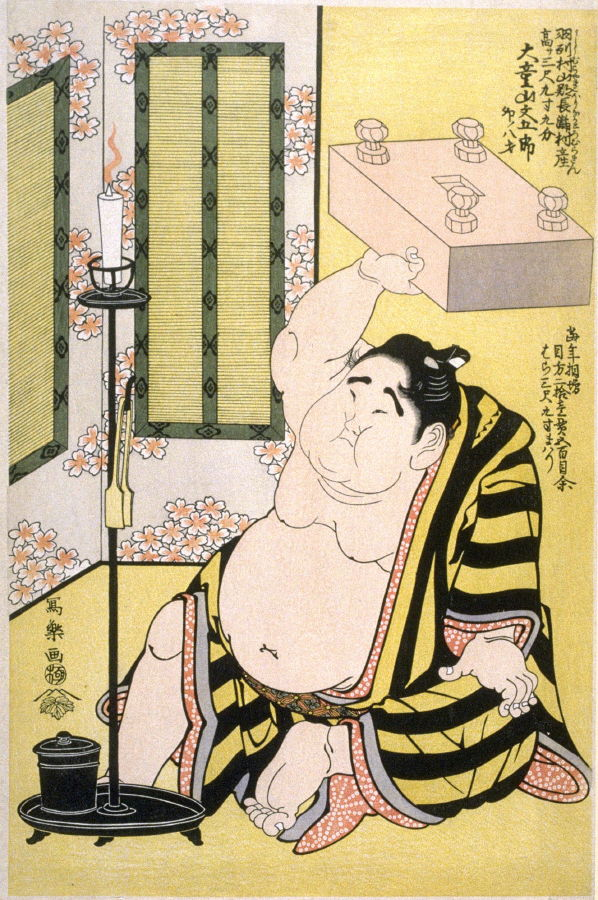 Ukiyo-e print by Tōshūsai Sharaku, Daidozan Bungoro Showing His Strength. 1940 reprint by Adachi Colour Print Studio